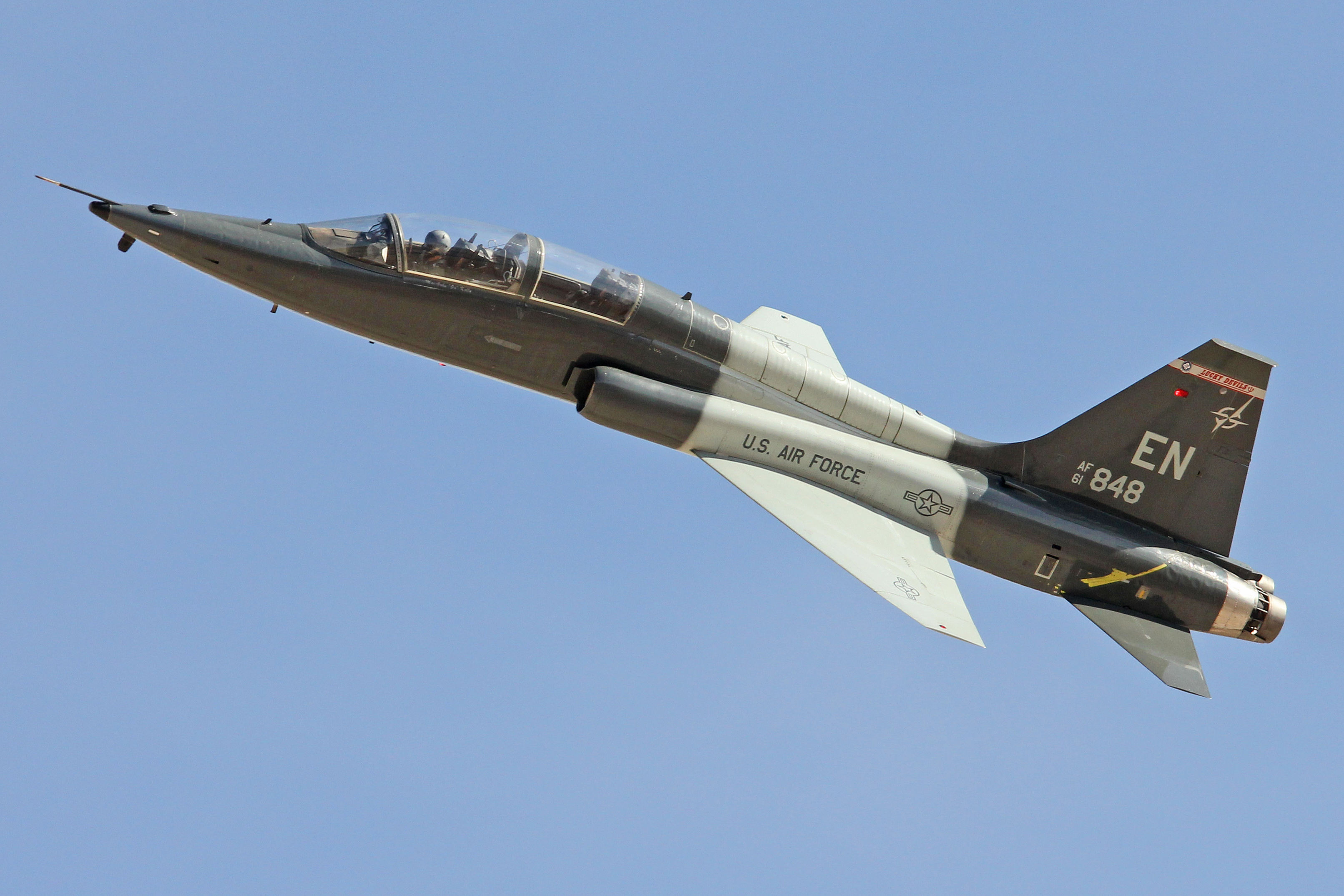 c/n N.5214. Full US military serial 61-0848. Operated by the 88th Flying Training Sqn, part of the 80th Flying Training Wing based at Sheppard AFB, TX. Departing on a mission as part of Red Flag 16-2. Nellis AFB, NV, USA. 2nd March 2016